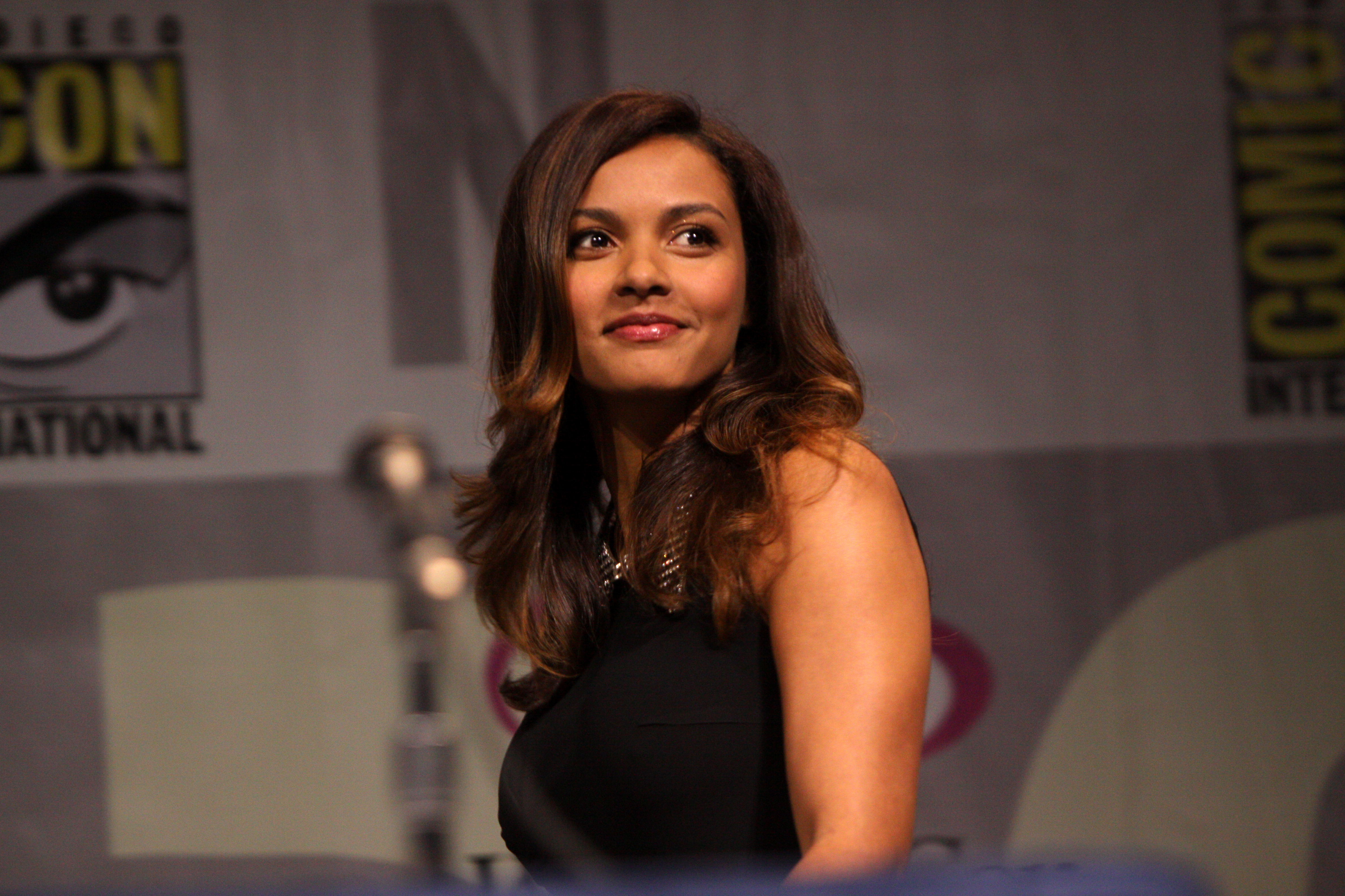 Jessica Lucas speaking at the 2013 WonderCon at the Anaheim Convention Center in Anaheim, California.